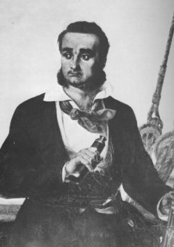 Illustration of Robert Surcouf